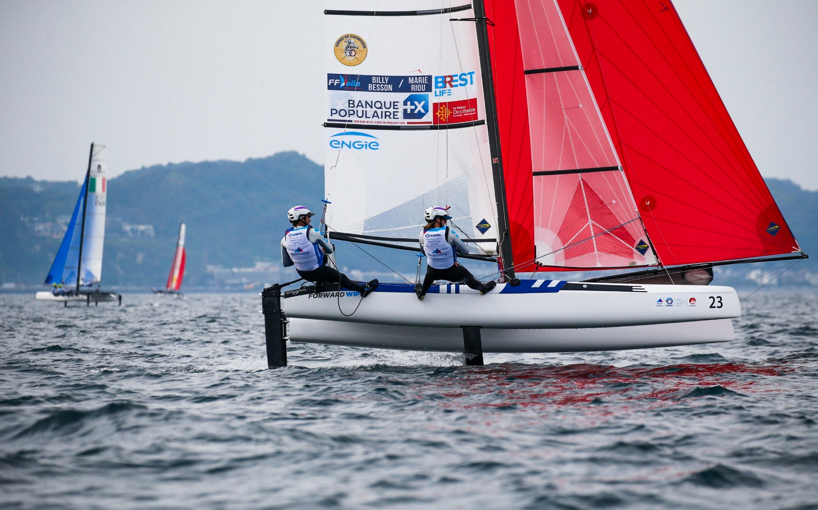 Billy Besson et Marie Riou - Nacra 17 - 2019